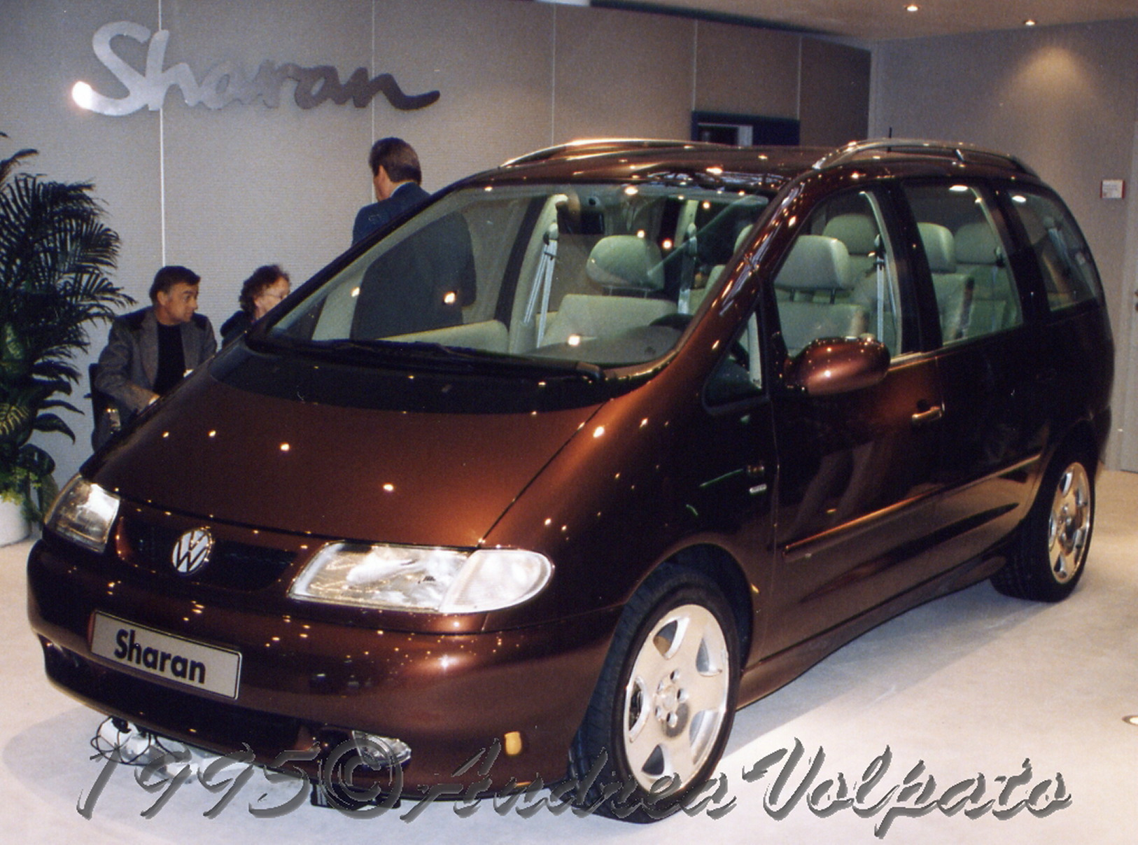 VW Sharan Salone di Ginevra 1995